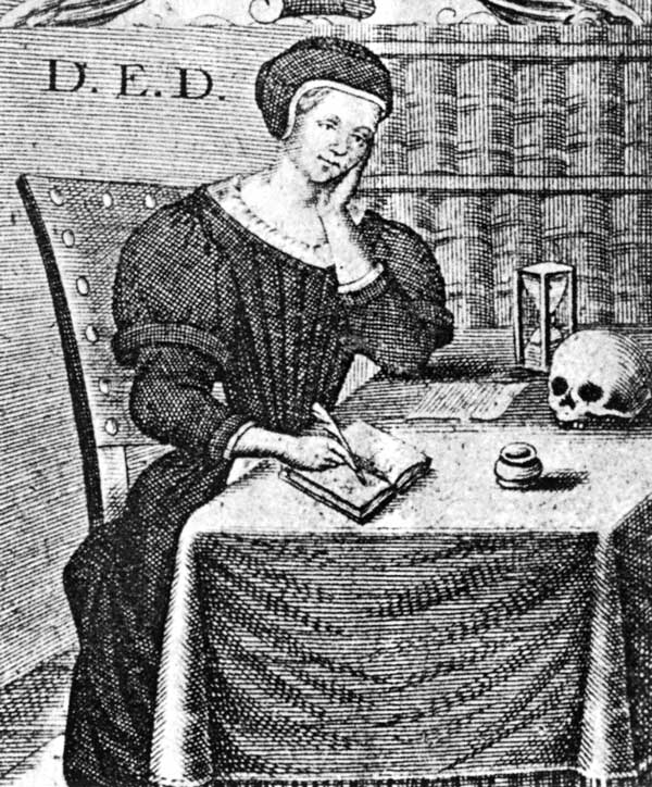 Title engraving of Taare-Offer (1685), a collection of poems by Dorothe Engelbretsdatter (1634-1716), showing the author.